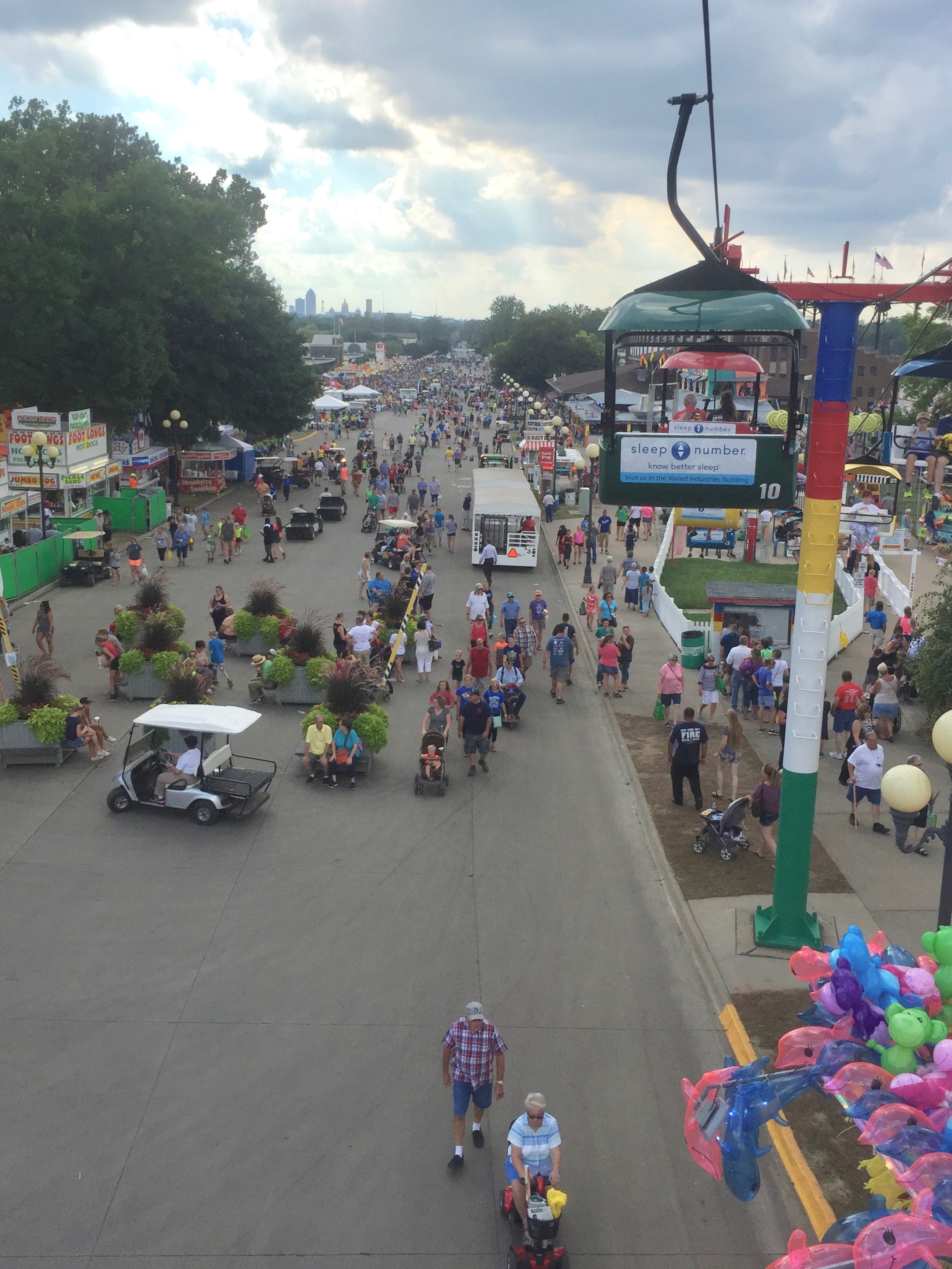 This is a picture of the Iowa State Fair, taken from the Iowa State Fairgrounds. This photo was taken in the air from the sky lift, one of the attractions at the fair. You can partially see the Des Moines Skyline in the distance.